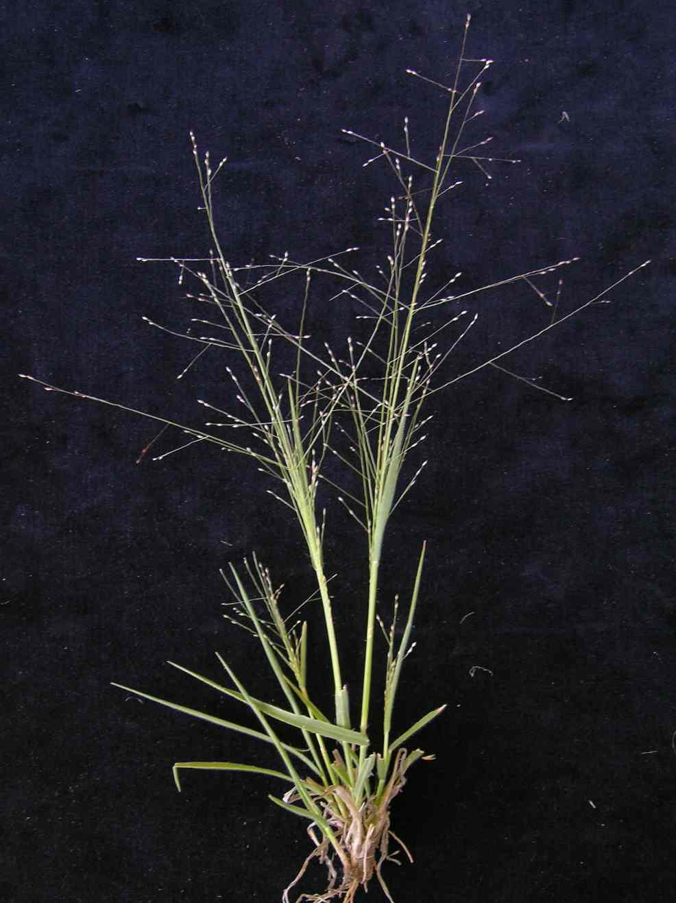 Native, warm-season, perennial, hairy, tufted grass to 50 cm tall. Most commonly found on sandy or shallow, low fertility soils in native pastures, woodlands or disturbed areas (e.g. roadsides).